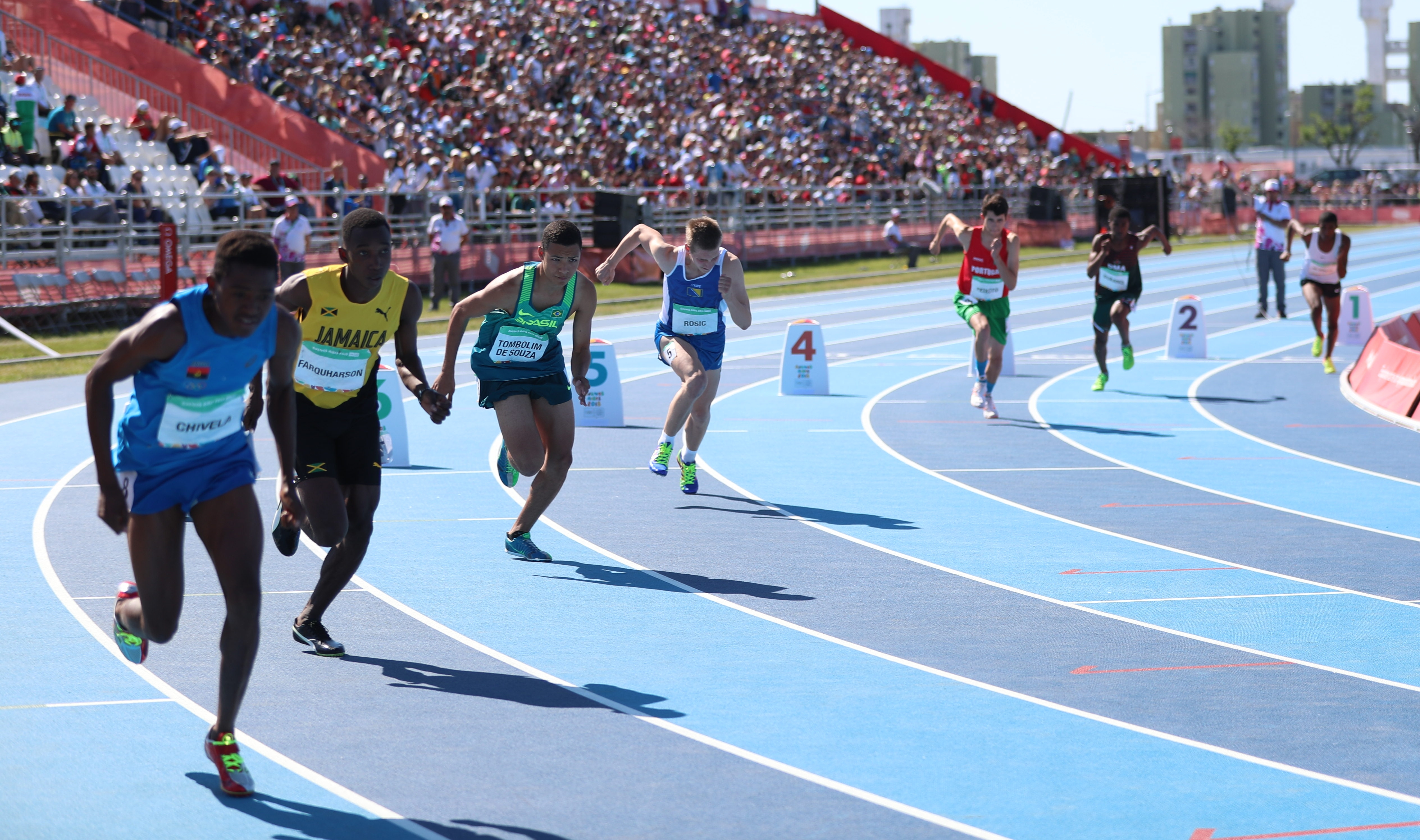 Athletics, Boys' 800 m Stage 2, at the 2018 Summer Youth Olympics in Buenos Aires on 15 October 2018.